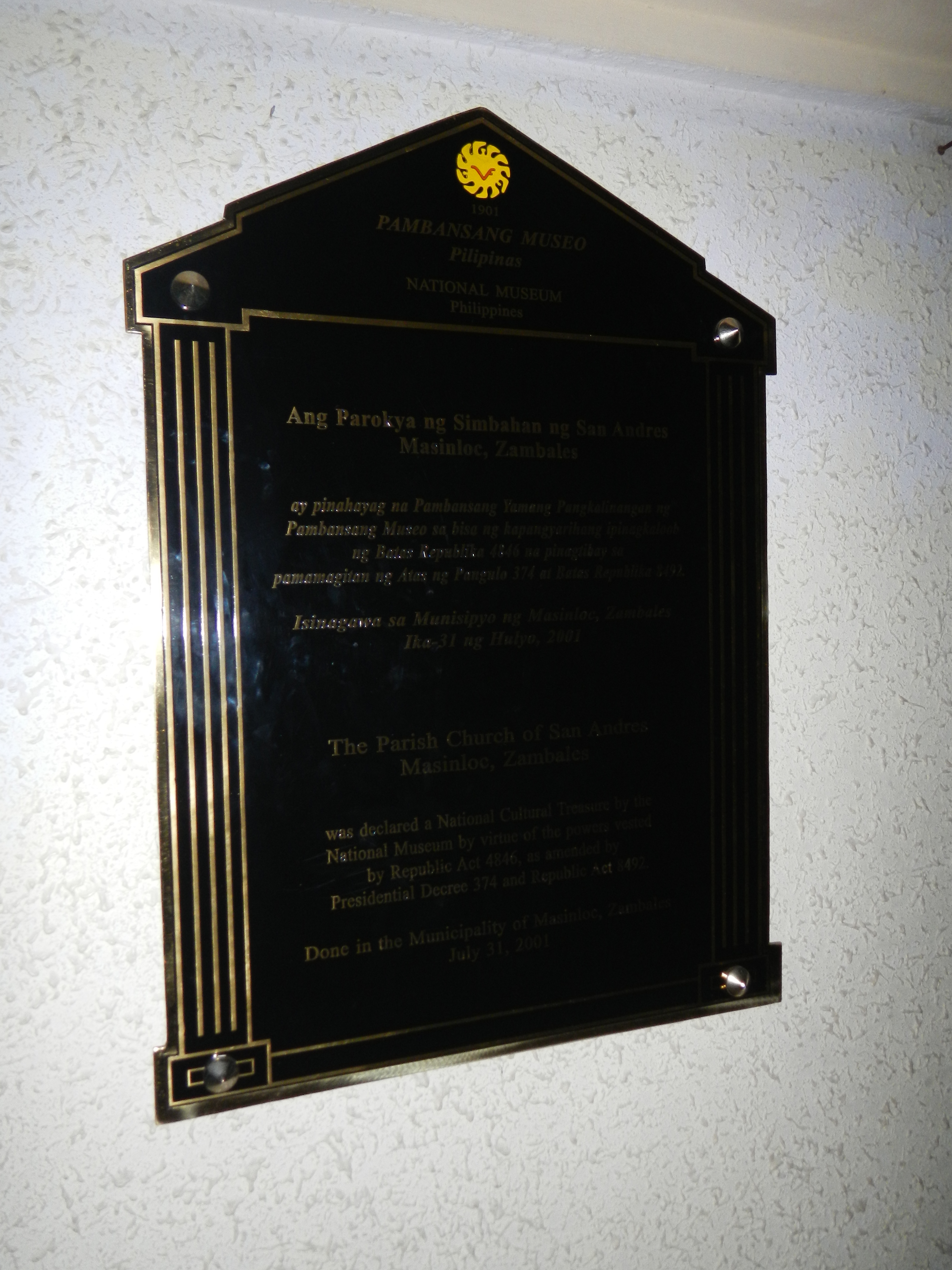 Upload Wizard photos of - Masinloc, Zambales[1] Town Proper: (a first class municipality in the province of Zambales,[2] Philippines - politically subdivided into 13 barangays - .subject of the Scarborough Shoal standoff [3]) - The Parish Church of San Andres of Masinloc, Zambales is 1 of the Baroque Churches of the Philippines [4] registered as No. 19, and declared on July 31, 2001 as National Cultural Treasures by the National Museum of the Philippines under RA 8492 [5] - built in the 18th-19th centuries by the Augustinian Recollects hit by a recent earthquake doorway from the choirloft is carved and polychromed and after the facade, the most unique feature of the church - located in Poblacion where the San Andres School of Masinloc, Inc., the Masinloc Mall, in front of the Town Plaza, Grandstand, stand very near the Old Masinloc Town Hall in front of the sea shores, deep sees and Masinloc Baywalk, where the Public Market sits beside - the San Andres Church belongs to the Roman Catholic Diocese of Iba in Zambales.